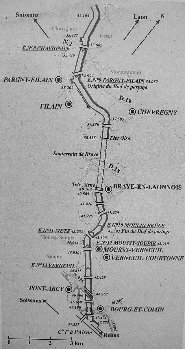 Map of the Canal l`Oise á lÀisne